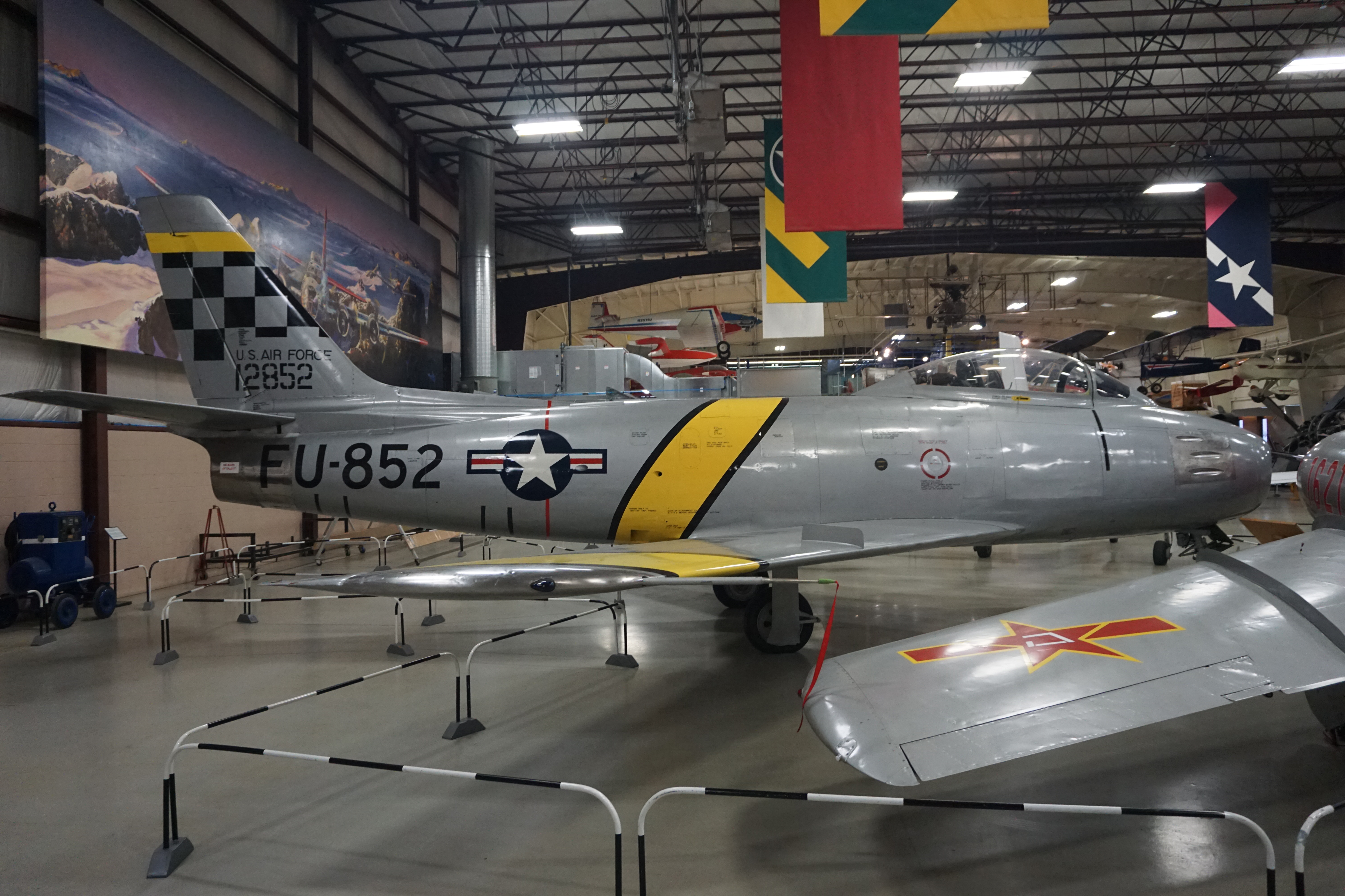 A North American F-86F-30 Sabre on display at the Air Zoo at Kalamazoo/Battle Creek International Airport in Portage, Michigan (United States).